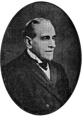 British magician R. D. Chater also known as "Hercat".